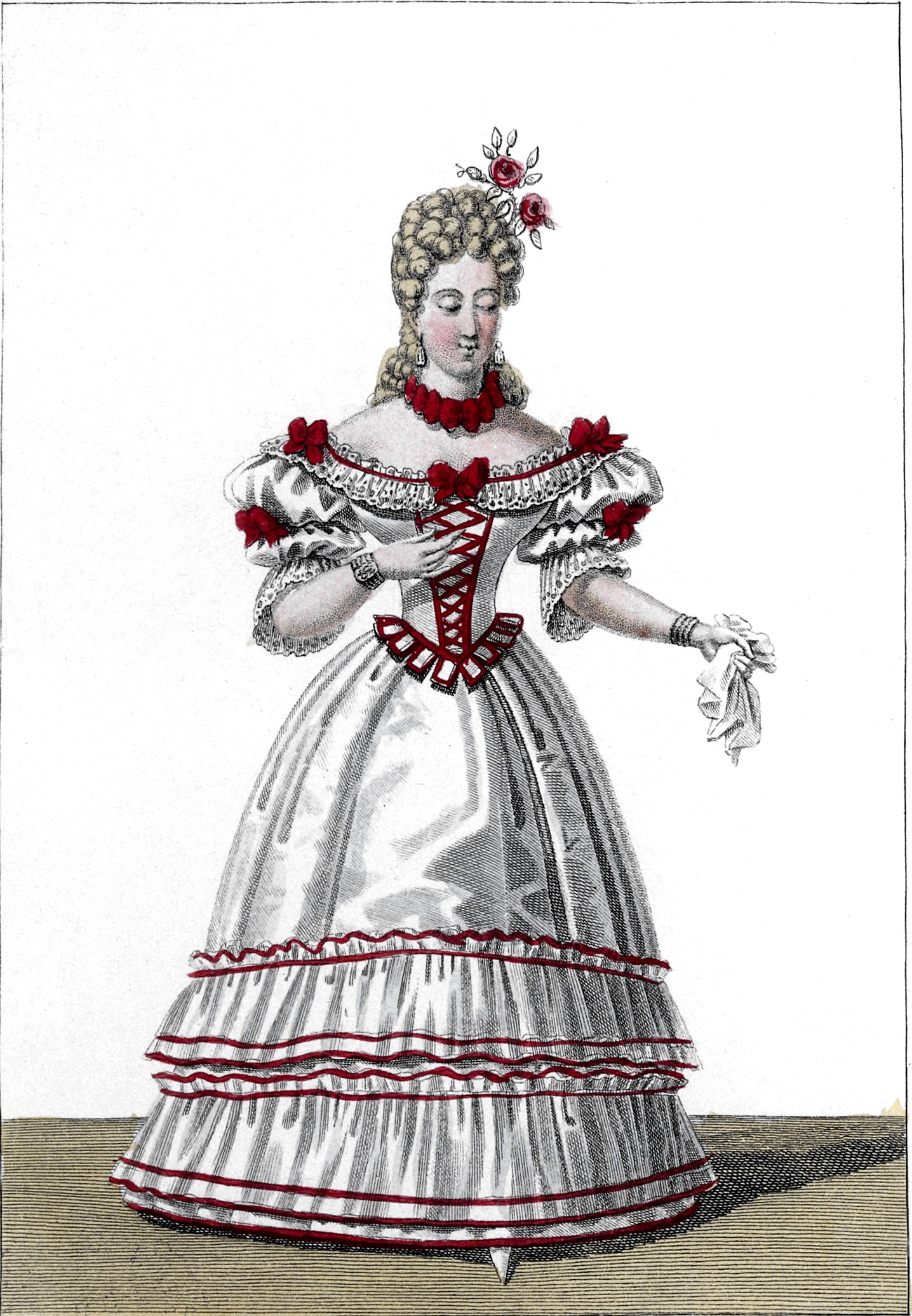 Marie Moreau-Sainti, born Marie-Louise Estancelin, as Manon Lescaut in Manon by Carmouche and Frédéric de Courcy. Paris : Odéon-Théâtre de l'Europe, 26-06-1830.